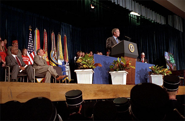 President George W. Bush announces his Lessons of Liberty initiative at Thomas S. Wootton High School in Rockville, MD. The initiative is an opportunity for American students to learn more about our country and its values, as well as the people that have been called upon to defend its freedom.